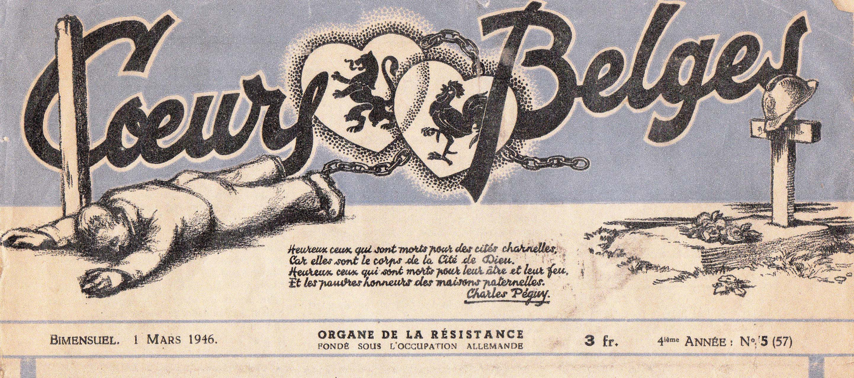 Cœurs belges, Bi-monthly of the Belgian Resistance, March 1946 issue